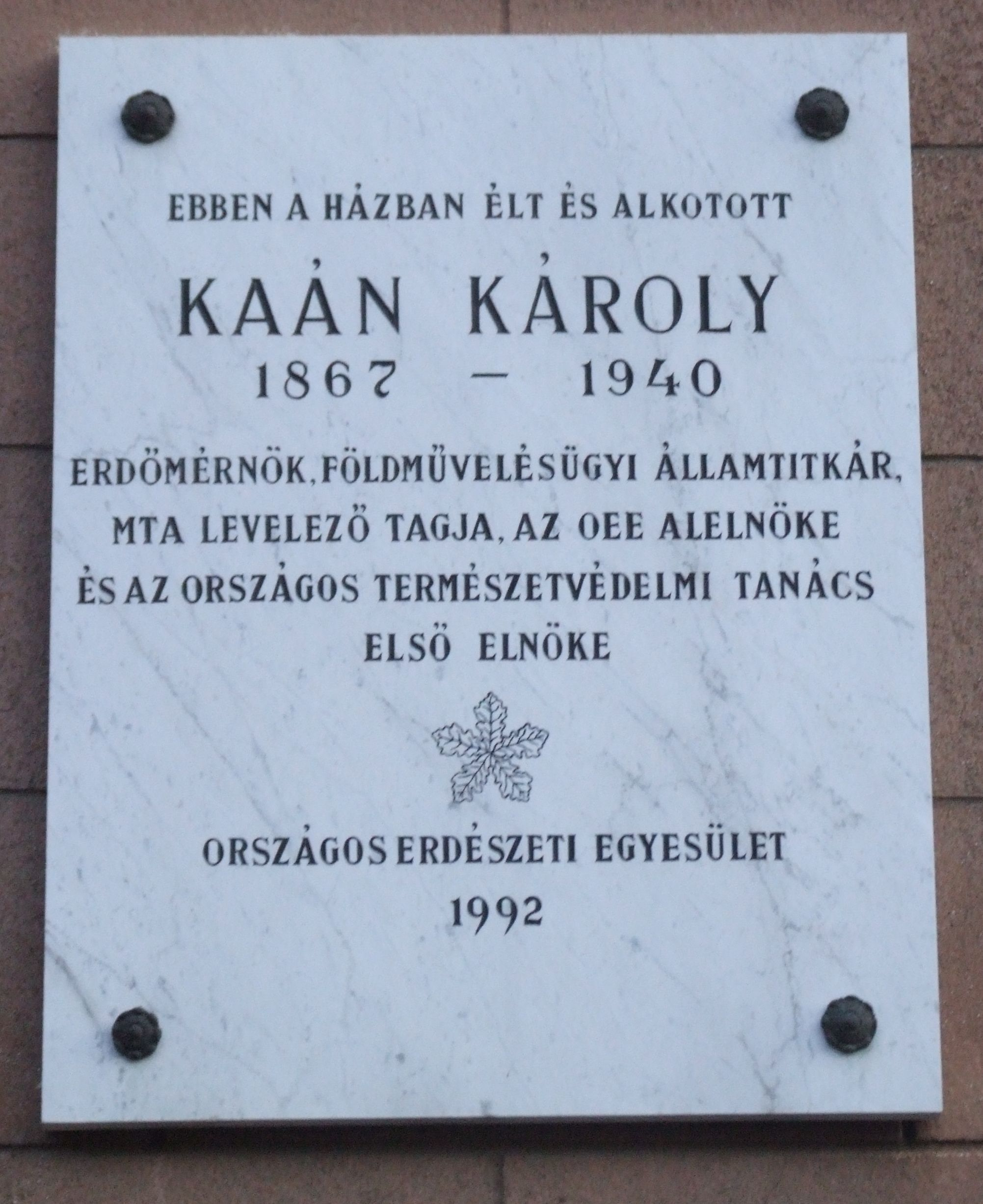 Commemorative plaque of Károly Kaán, Budapest District XII, Szilágyi Erzsébet Alley No 10, Szamos Street side